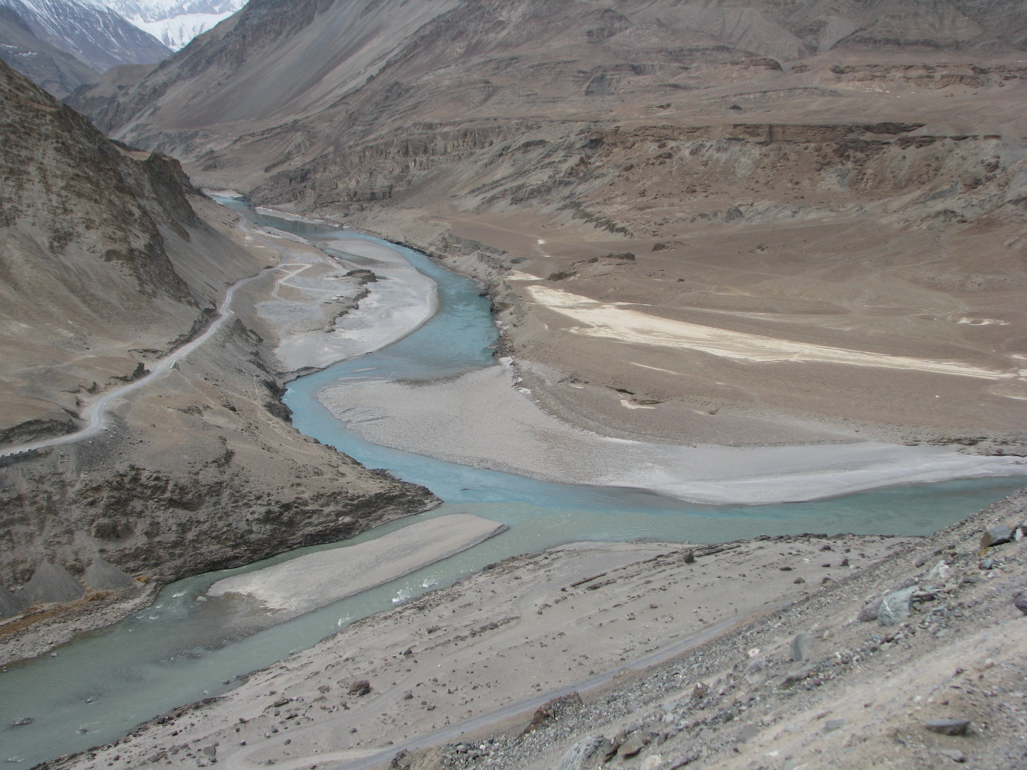 Very famous confluence (Sangam)of two rivers Zanskar and Indus. Two distinct copours of the waters is clearly visible for around 1-2kms after the Sangam. The stream is very thin as the glacers are still frozen... Taken in Leh,India